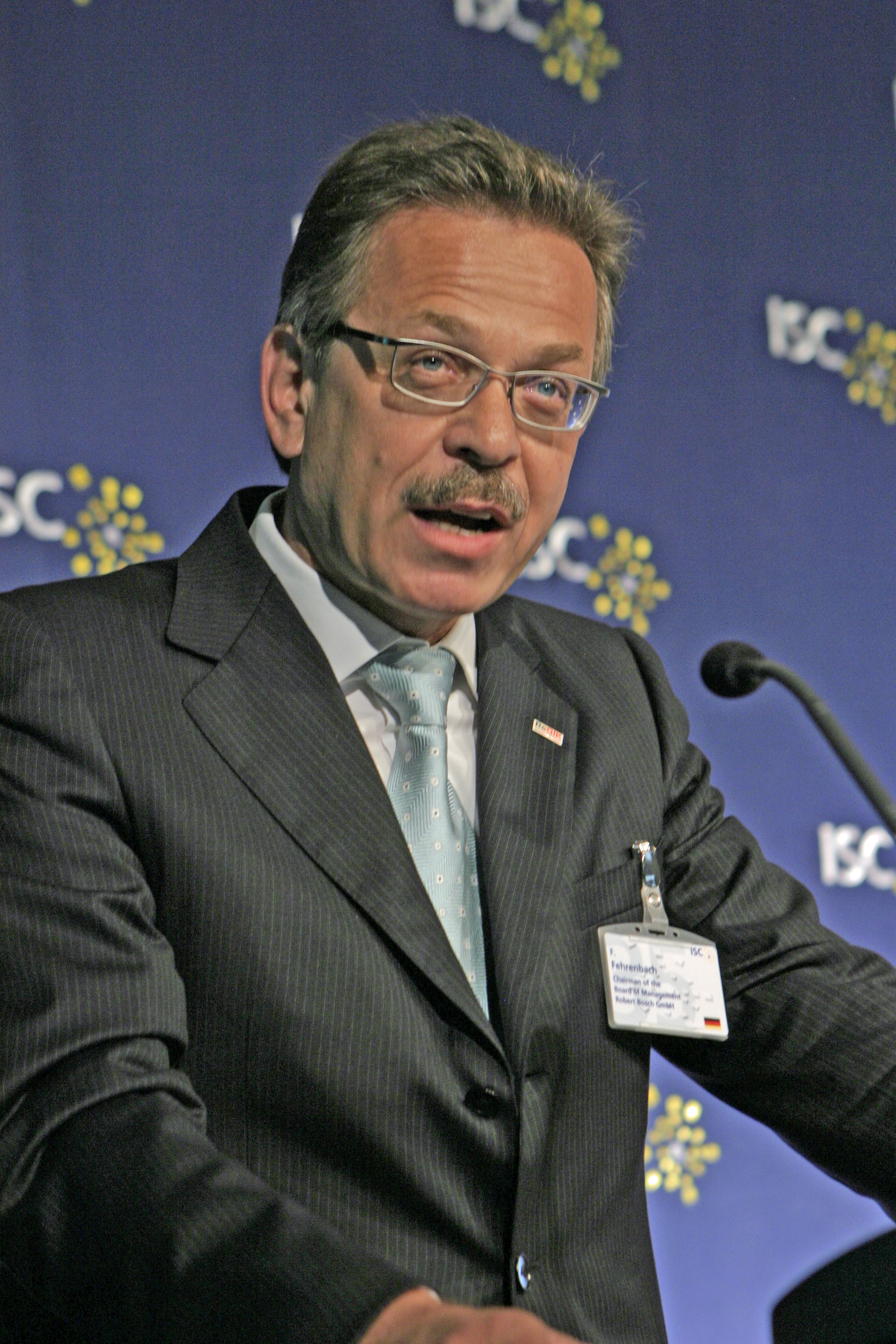 Franz Fehrenbach in May 2005 at the 35. St. Gallen Symposium at the University of St. Gallen